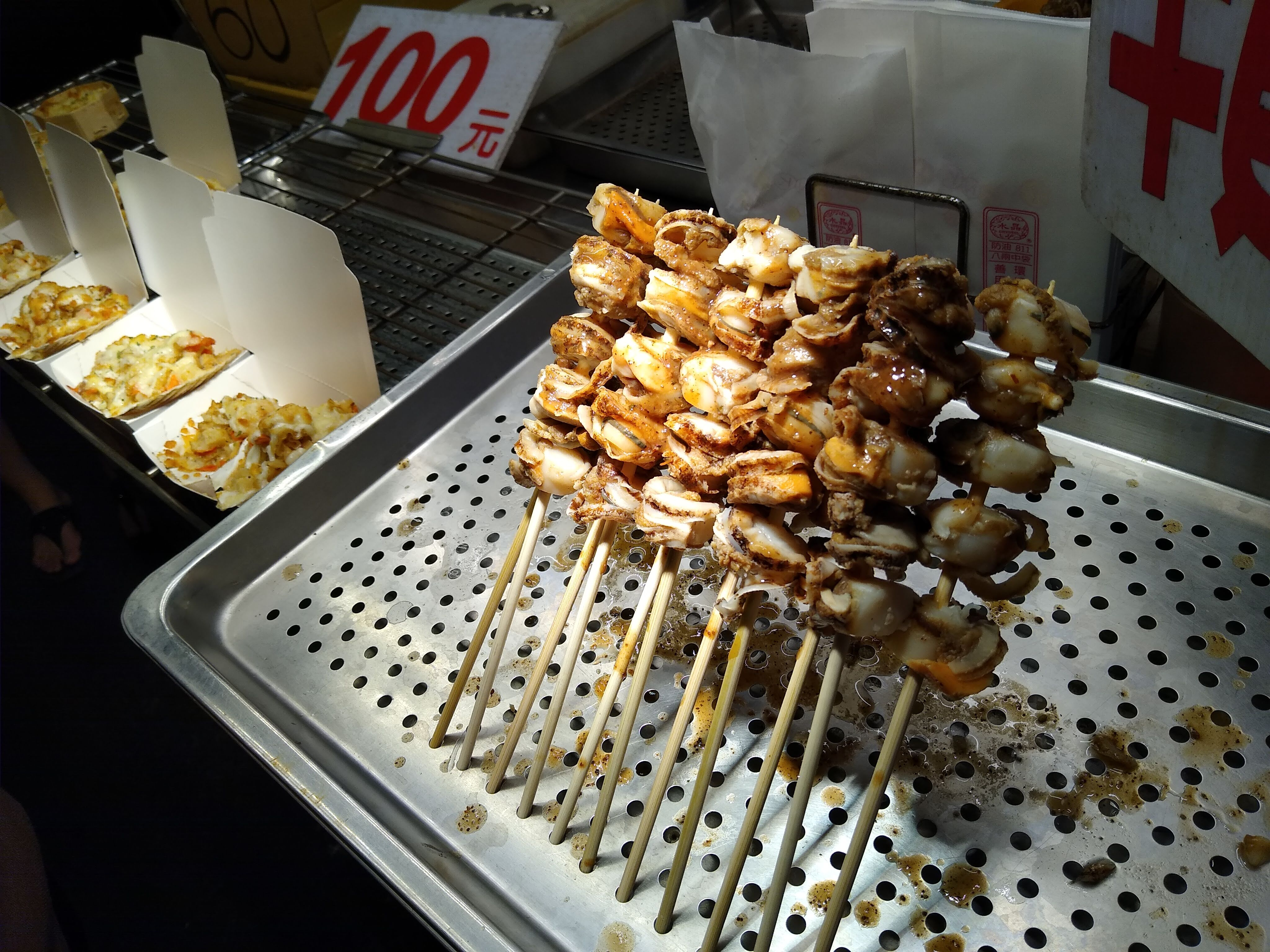 在六合夜市卖扇贝串